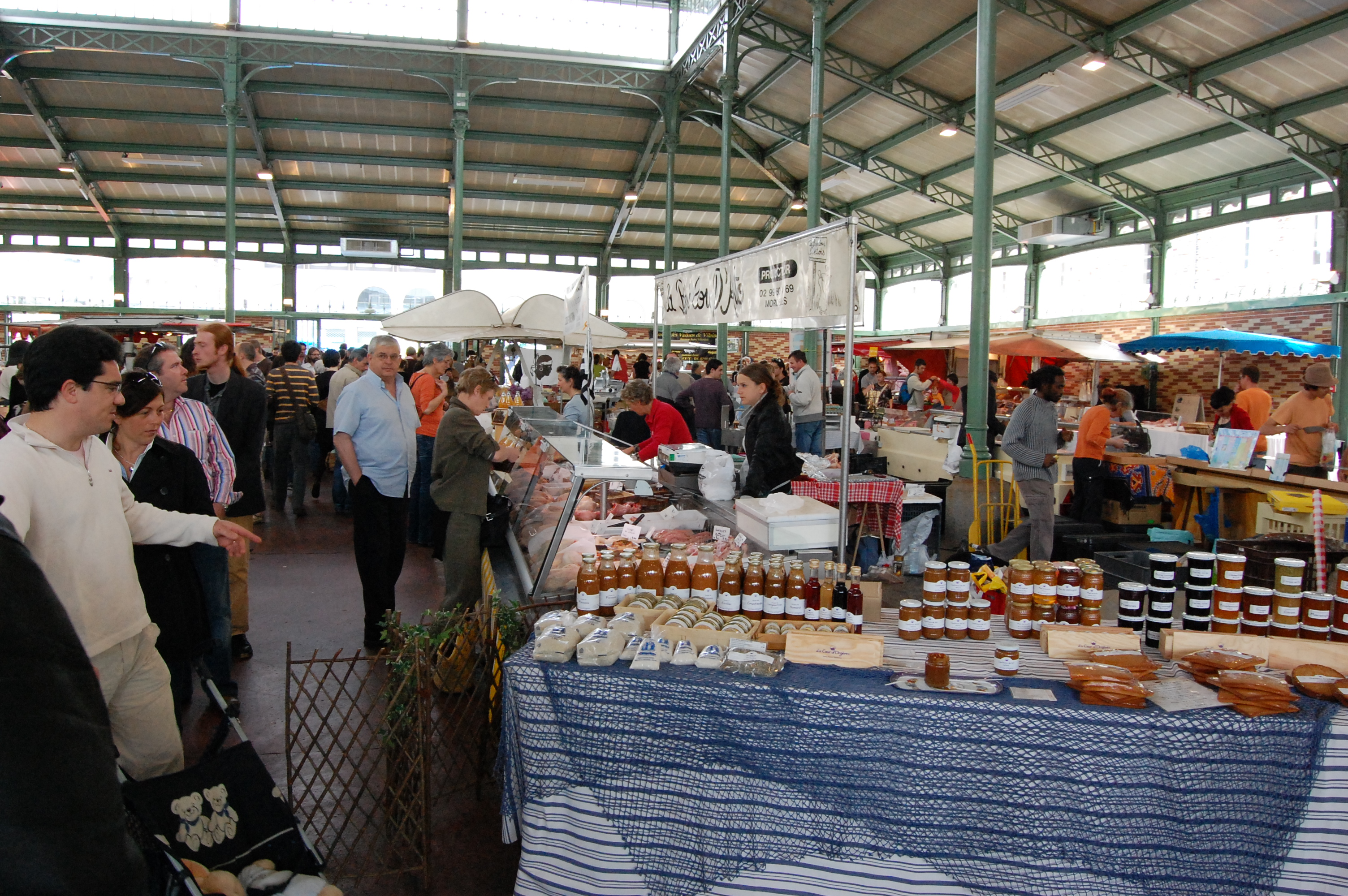 Marché des Lices in the Halle Martenot